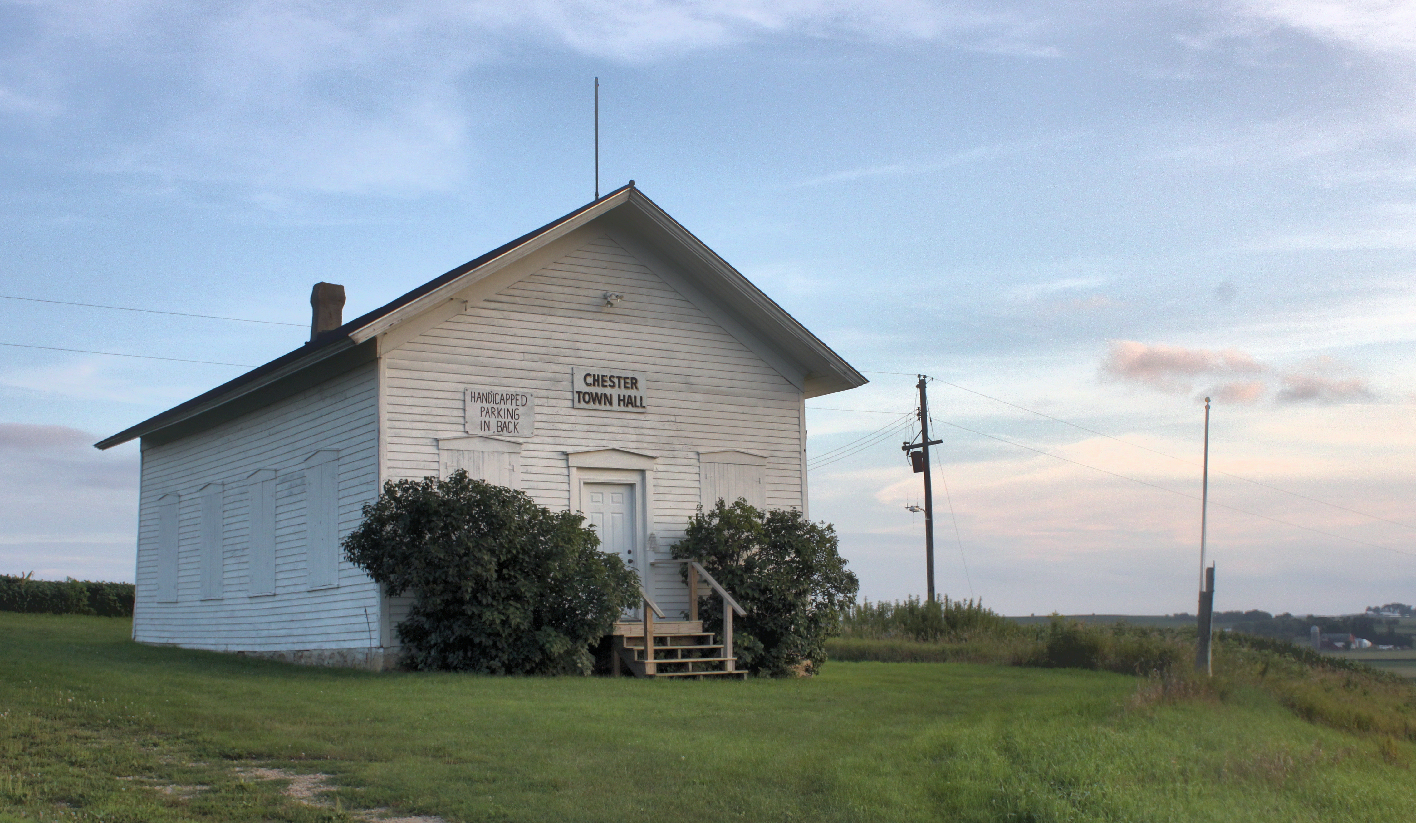 Bear Valley Grange Hall, now the Chester Town Hall, located in Wabasha County Minnesota